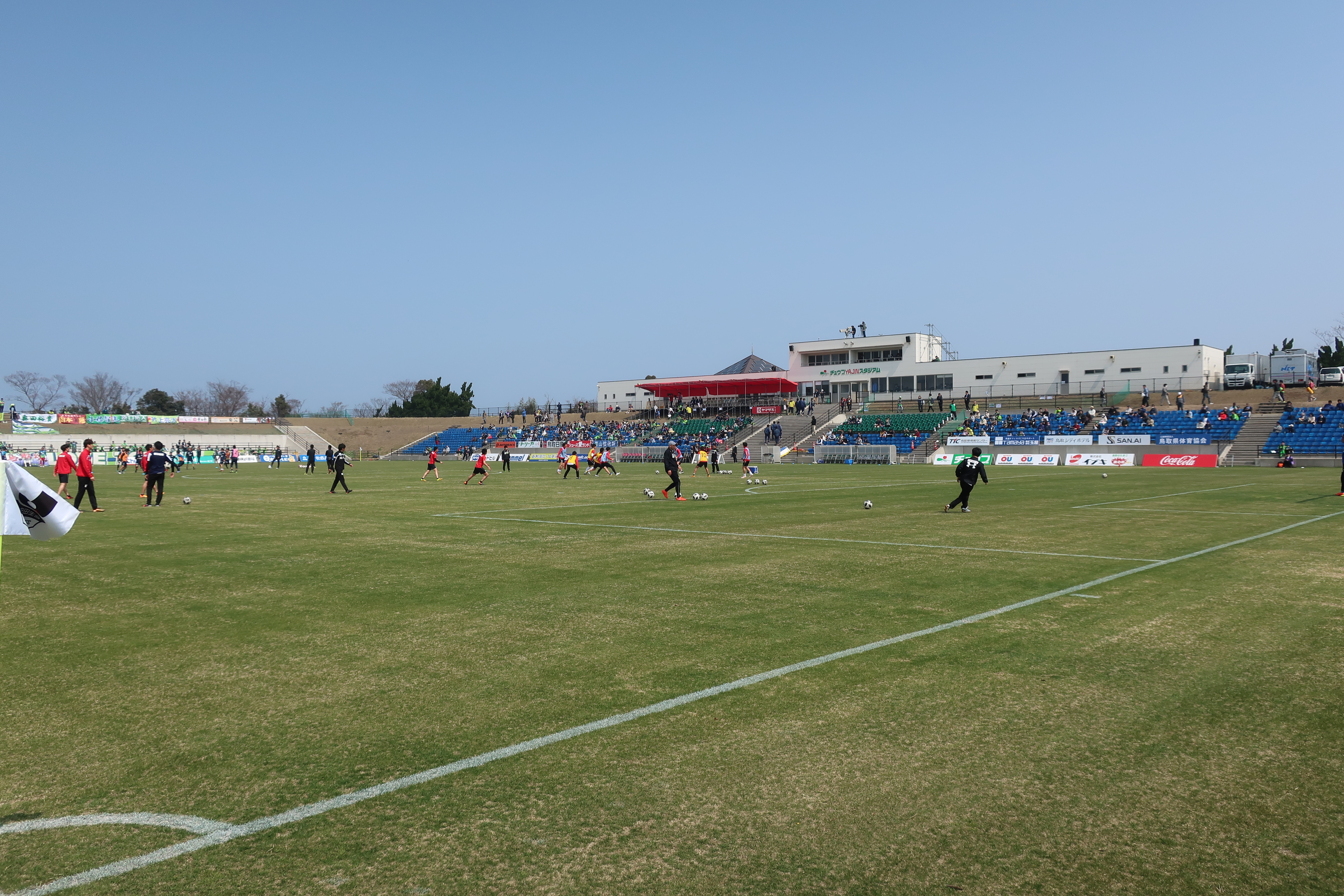 chubu_yajin_stadium